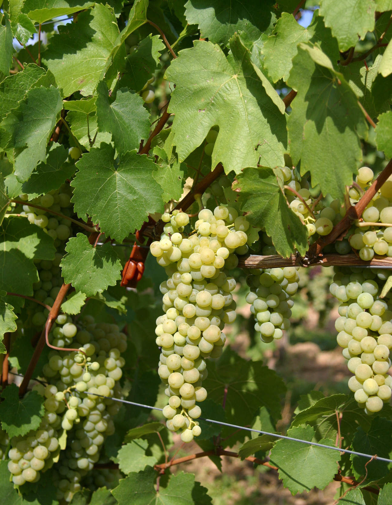 Leafs and grapes of the grape variety Orleans.